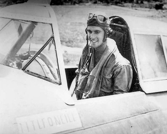 First Lieutenant Lawrence F. O’Neill of the 342nd Fighter Squadron, 348th Fighter Group, in the cockpit of his Republic P-47D at Finschhafen, Papua New Guinea.